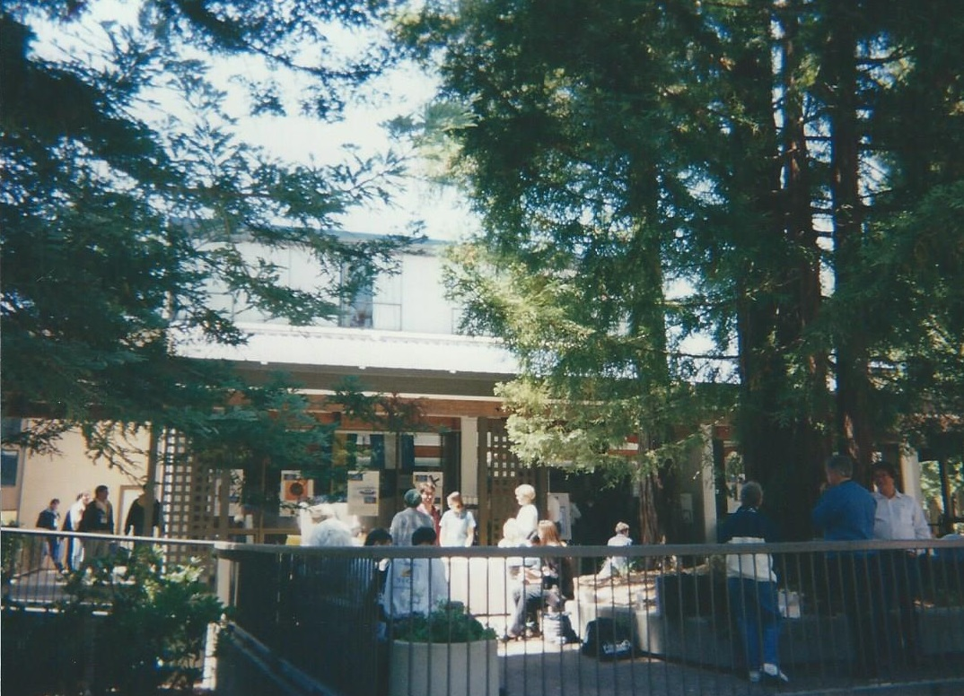 Attendees of the SCO Forum96 conference relaxing, talking, and eating in between breakout sessions, as seen on a patio in the Stevenson/Cowell area of the University of Santa Cruz, California campus.